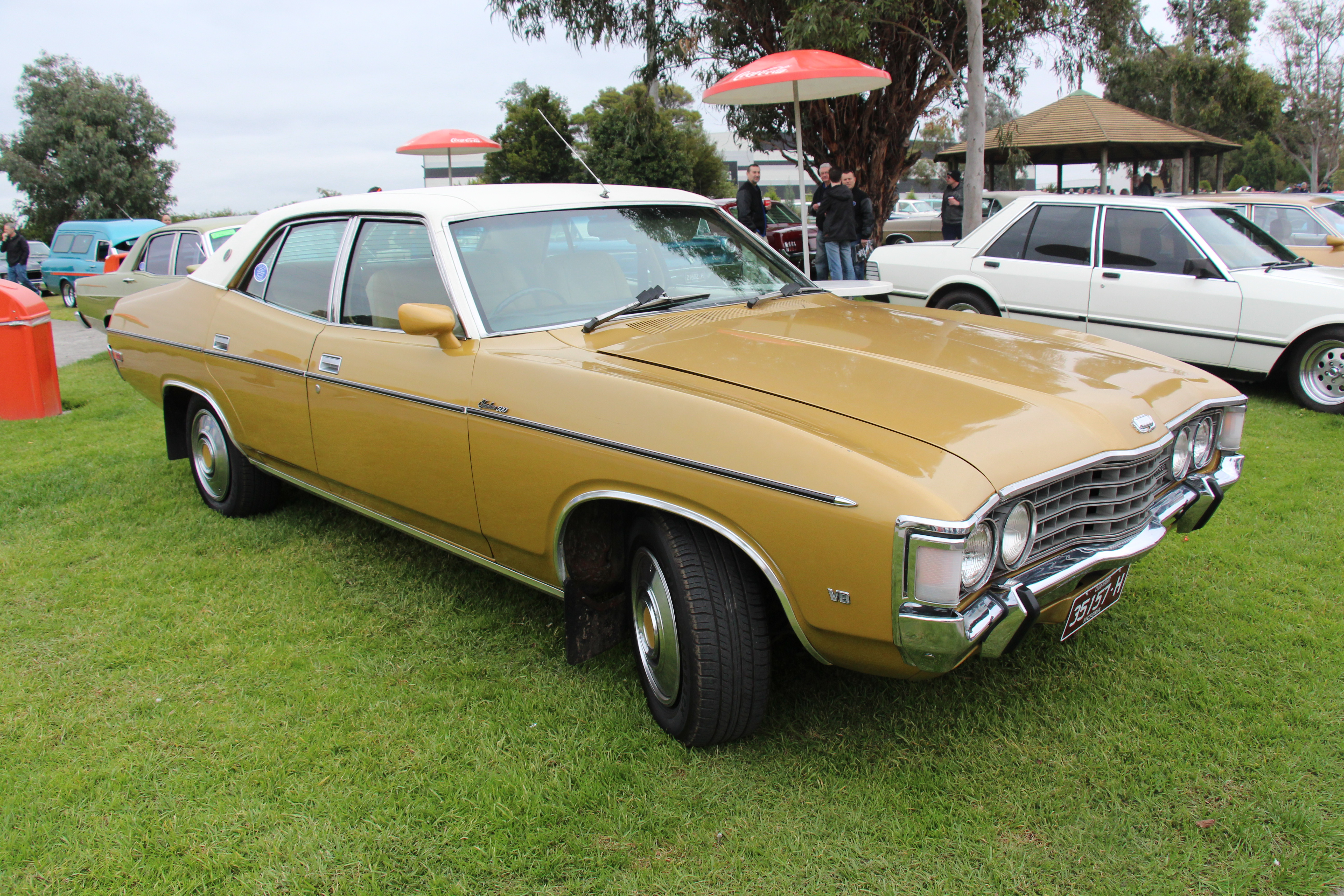 The ZG Fairlane was built from Nov 1973- May 1976. These Fairlanes were based on the XA/XB Falcons, the ZG sold along side the XB, the XA was first of the completely Australian designed Falcons, this new Falcon got an entirely new rounded body. Inside the seats were improved with new high backs in the front and the new wrap around dash was likened to an aircraft cockpit. The longer wheelbase Fairlane got a twin headlight grille, the front and centre of the Fairlane remained the same as the Falcon, but the Fairlane got a longer tail, the rear seat moved back for more leg room. From the ZF Fairlane, the facelift, the ZG, got a revised eggcrate grille and the taillight panel that spanned the full width of the car, got an egg crate look too. Introduced in Aug 1973, was the P5 LTD, more upmarket, it had an even longer wheelbase than the Fairlane. There was a 2 door version as well, the Landau, both had concealed headlights Engines; 250 6 cyl standard on Custom 302 V8 standard on Fairlane 500, 351 V8 option Fairlane 500 also got chrome strip below doors and around wheel arches